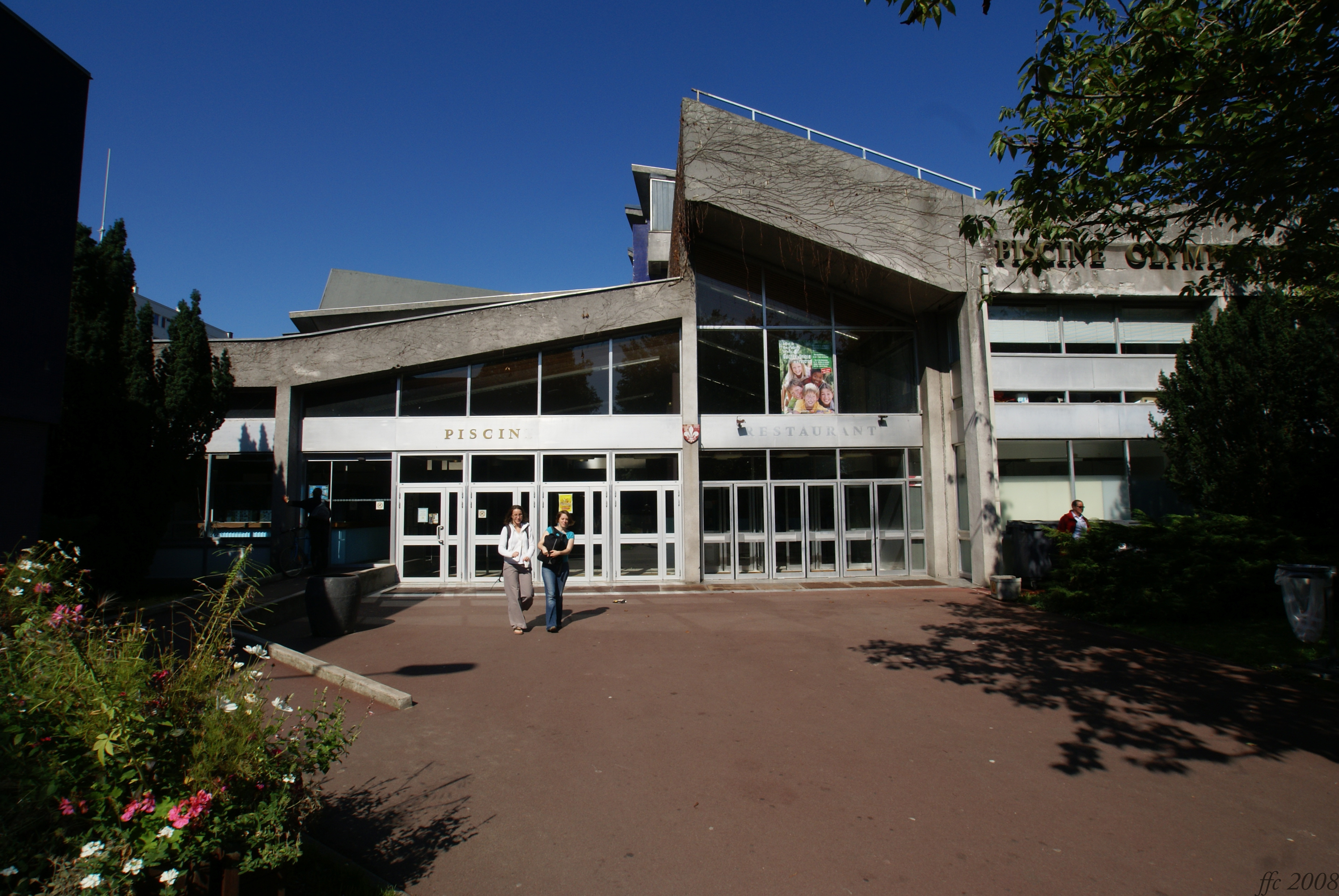 Lille (France), Olympic Swimming Pool at Bois Blancs